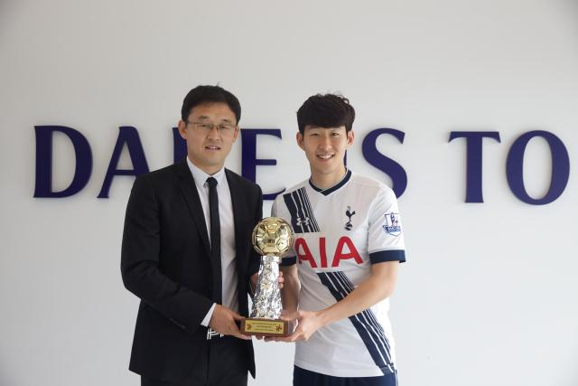 Titan Sports conferred the 2015 BFA trophy to Son Heung-min